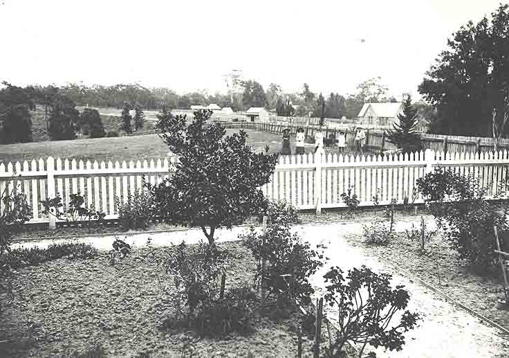 Valley Heights Railway Station - gatehouse Dated: c. 31/12/1878 Digital ID: 17420_a014_a014000734 Rights: We'd love to hear from you if you use our photos/documents. Many other photos in our collection are available to view and browse on our website using Photo Investigator.